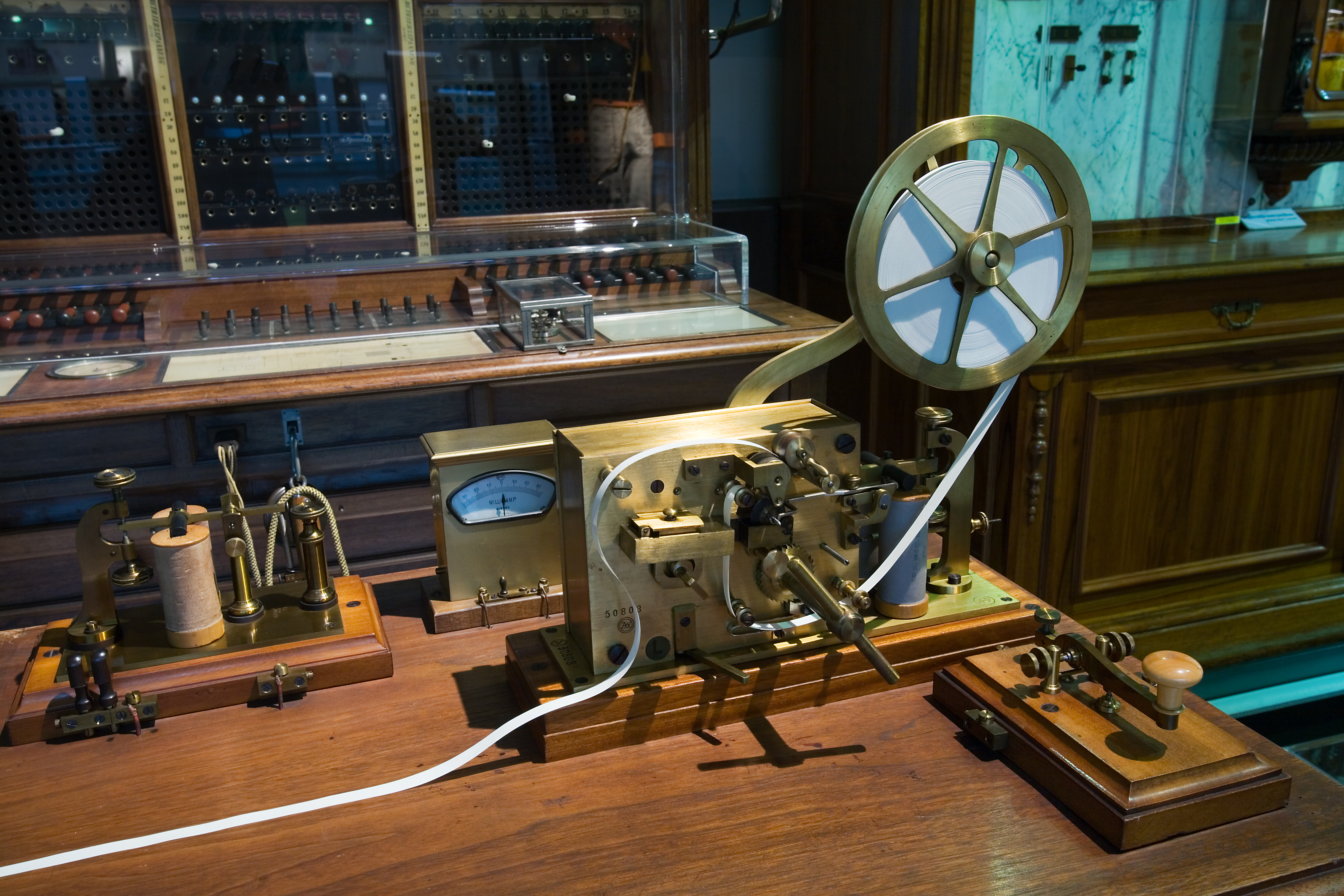 Morse station with ink recorder. Czeija, Nissl u. Co., Vienna, since 1896. Technisches Museum, Vienna, Austria.